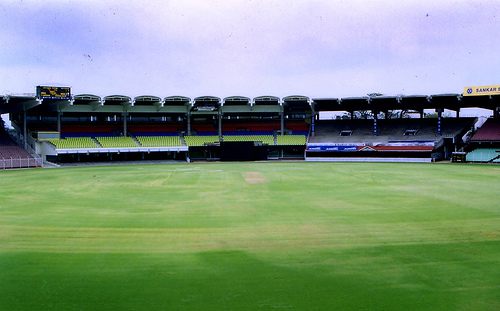 The turf at MAC Cricket Stadium (Chepauk), Chennai. India Author: Chandrachoodan Gopalakrishnan